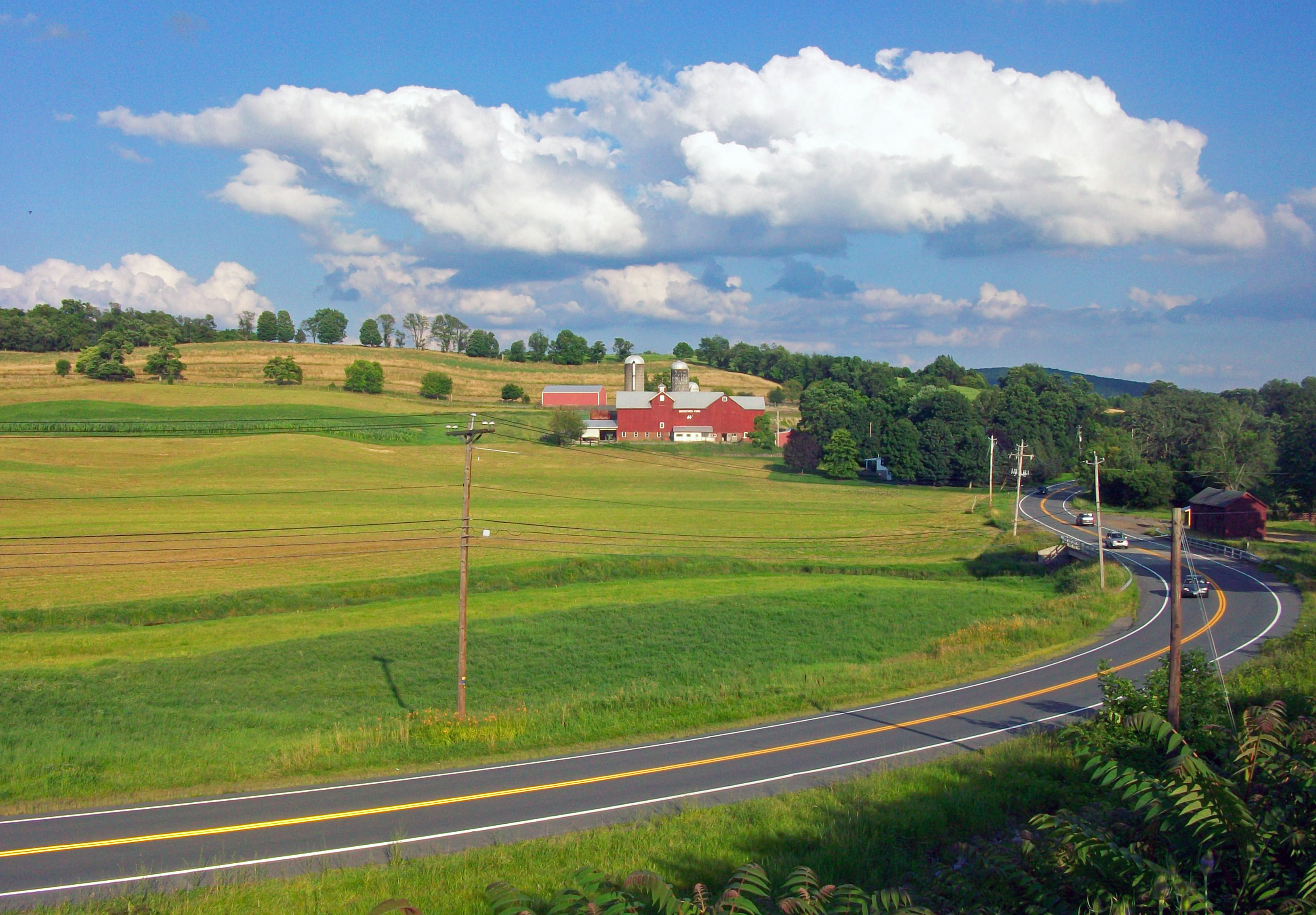 Eastbound view of NY 17M from shoulder of NY 17 in Chester, NY, USA, just east of Goshen town line.